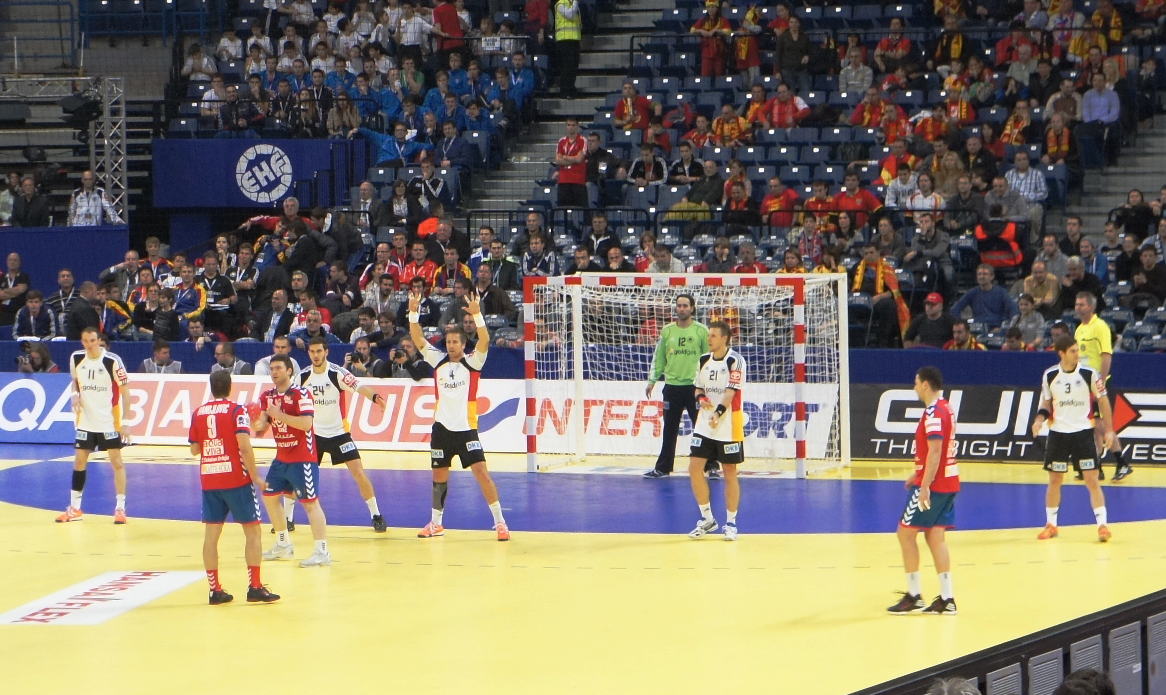 Serbia vs Germany. 2012 European Men's Handball Championship, Belgrade Arena, Serbia.